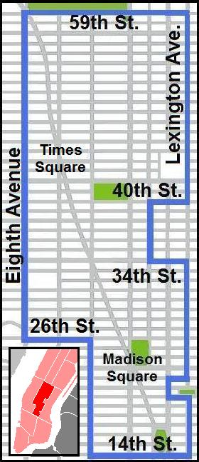 A map of the area of responsibility of Community Board 5 in Manhattan, New York; includes a detail from File:New York City - Manhattan - Community Board 5.PNG